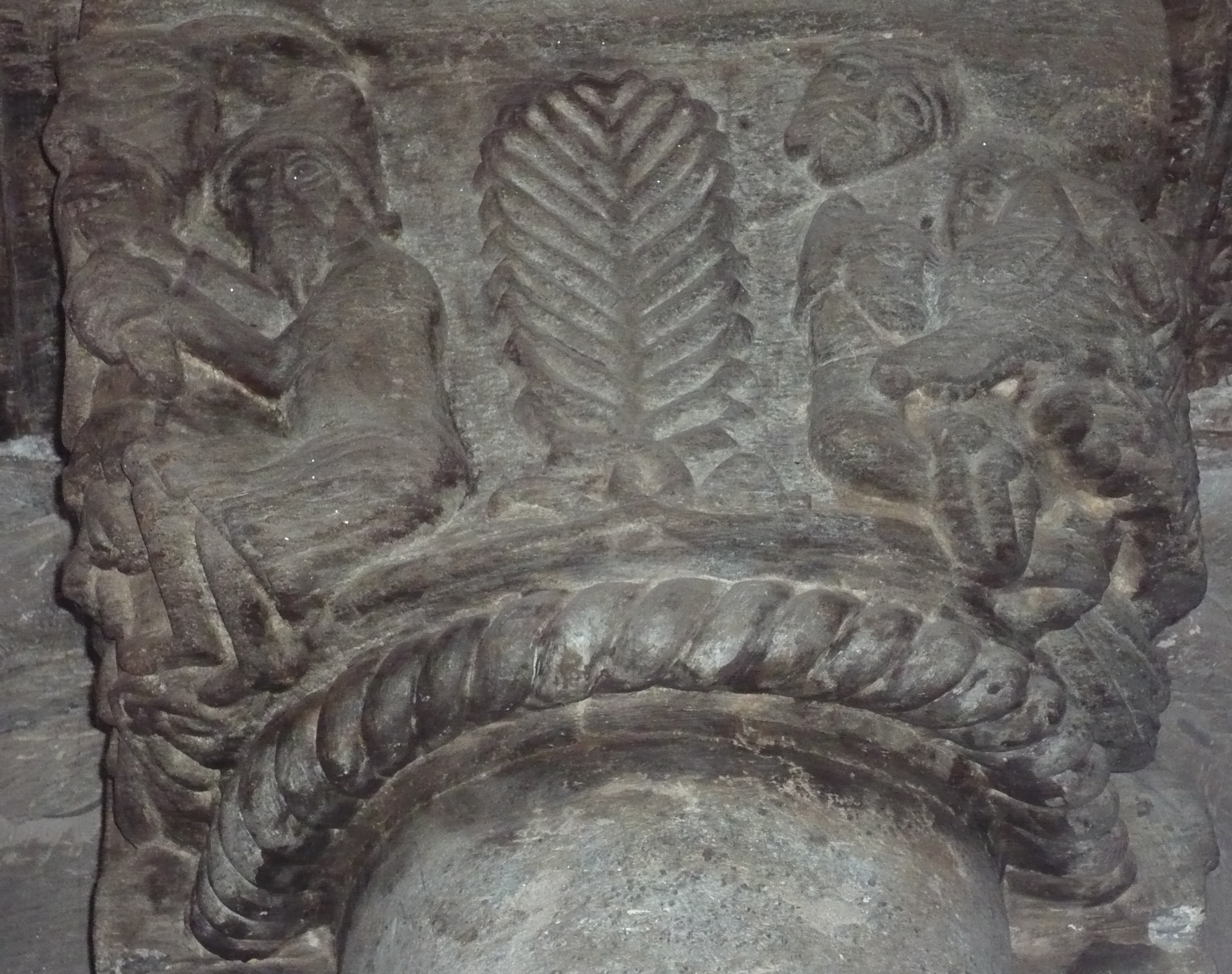 Ornamentation of the Stavanger Catherdral.